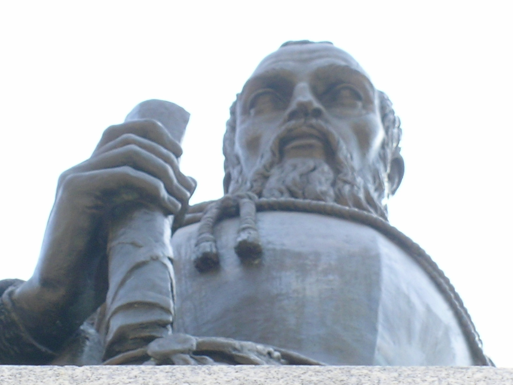 Documents in Hand , Looking Down On Us All From The Center of the MOST PROFITIABLE SLAVE MARKET IN THE NEW WORLD/..Casco Antiquo, Cartagena De Los Indias, COLOMBIA. The Slave Trade Made Untold Riches for the Conquistadores, even more riches than Gold/Silver/Emeralds/Taxes. What remains in Cartagena are the descendants.